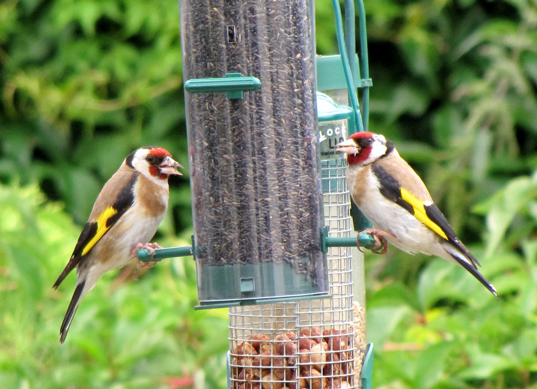 European Goldfinchs on a garden bird feeder in the United Kingdom.